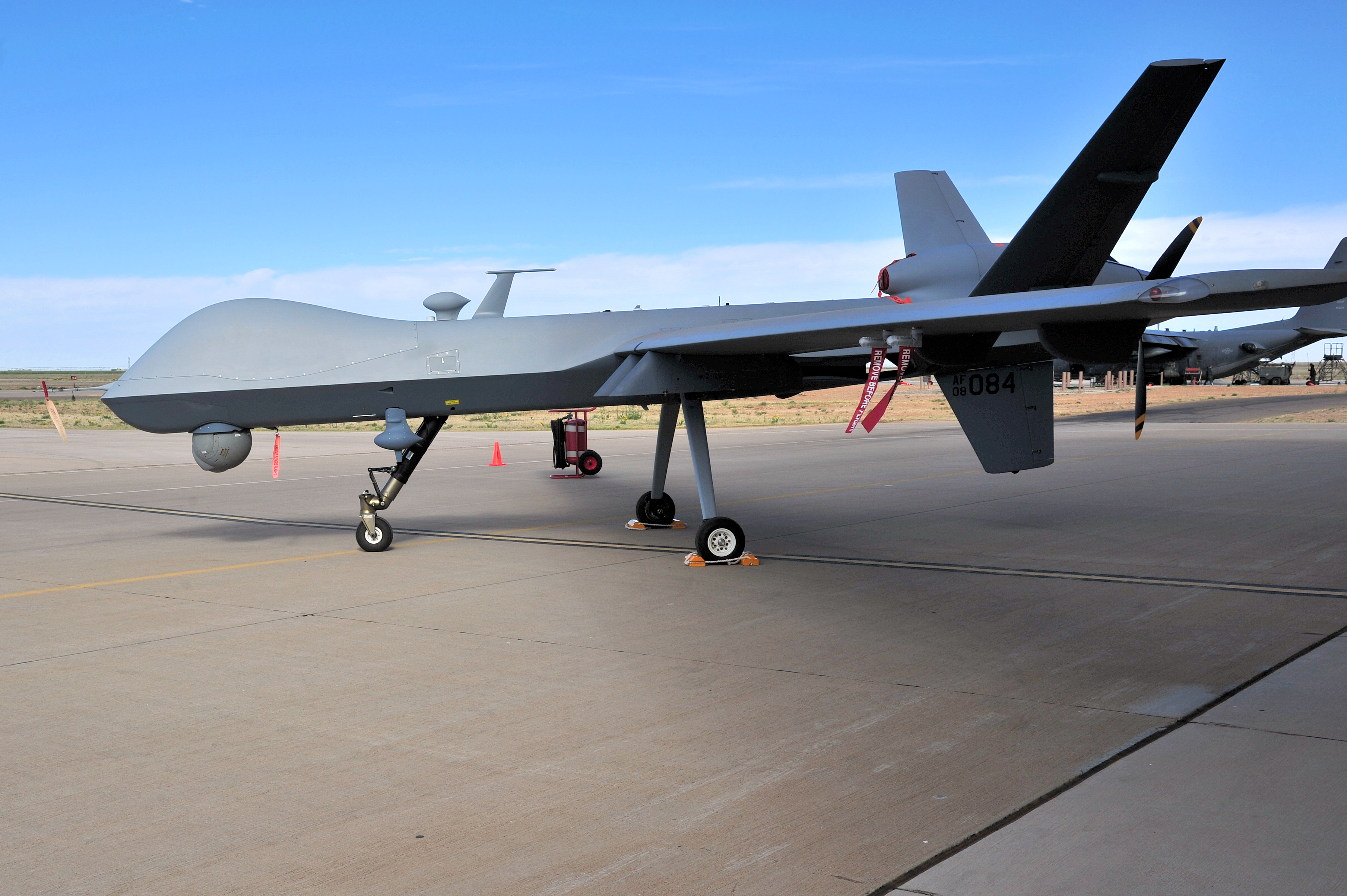 33d Special Operations Squadron General Atomics MQ-9 Reaper 08-0084